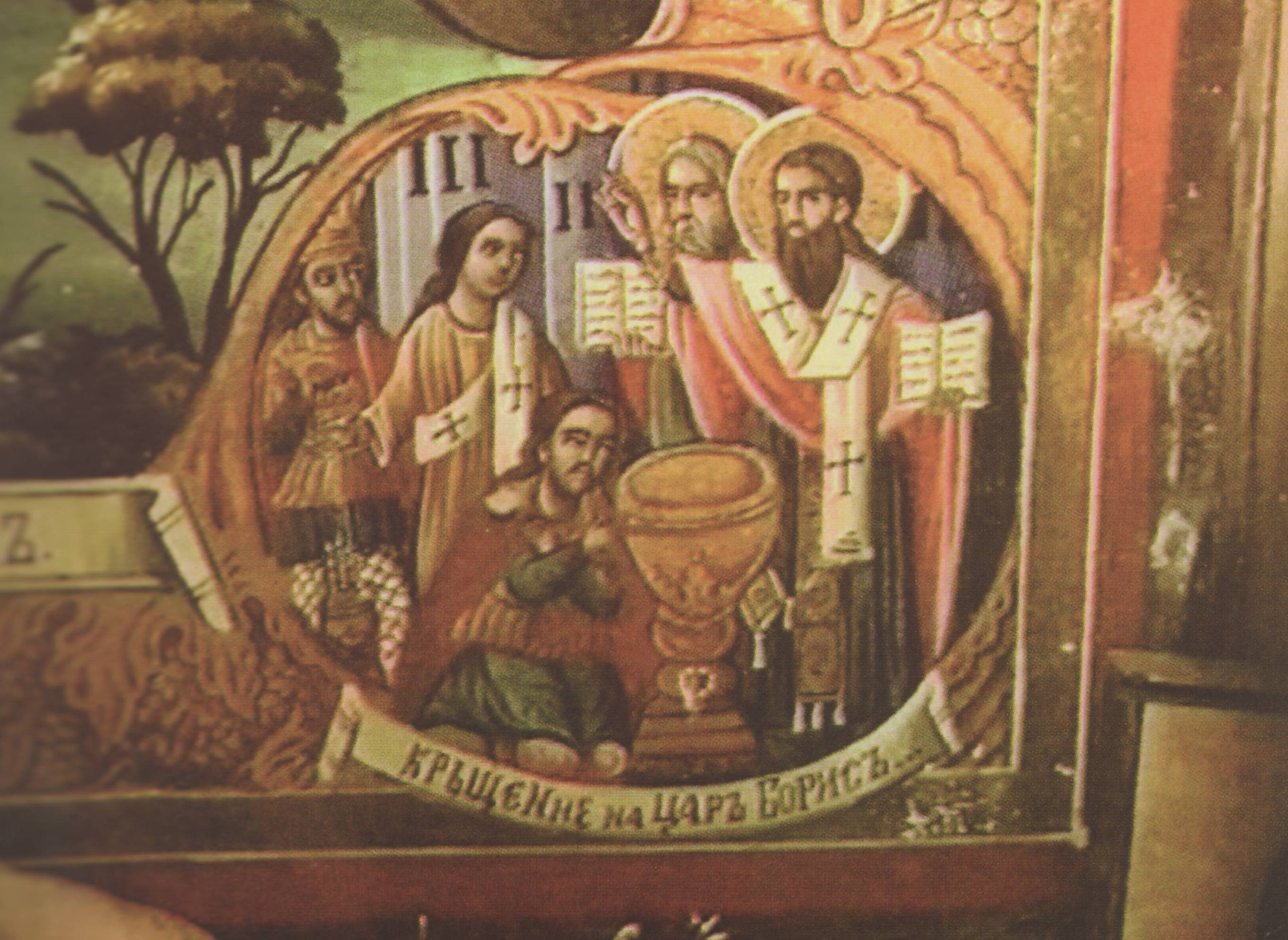 Fresco in church in Resen. Macedonia